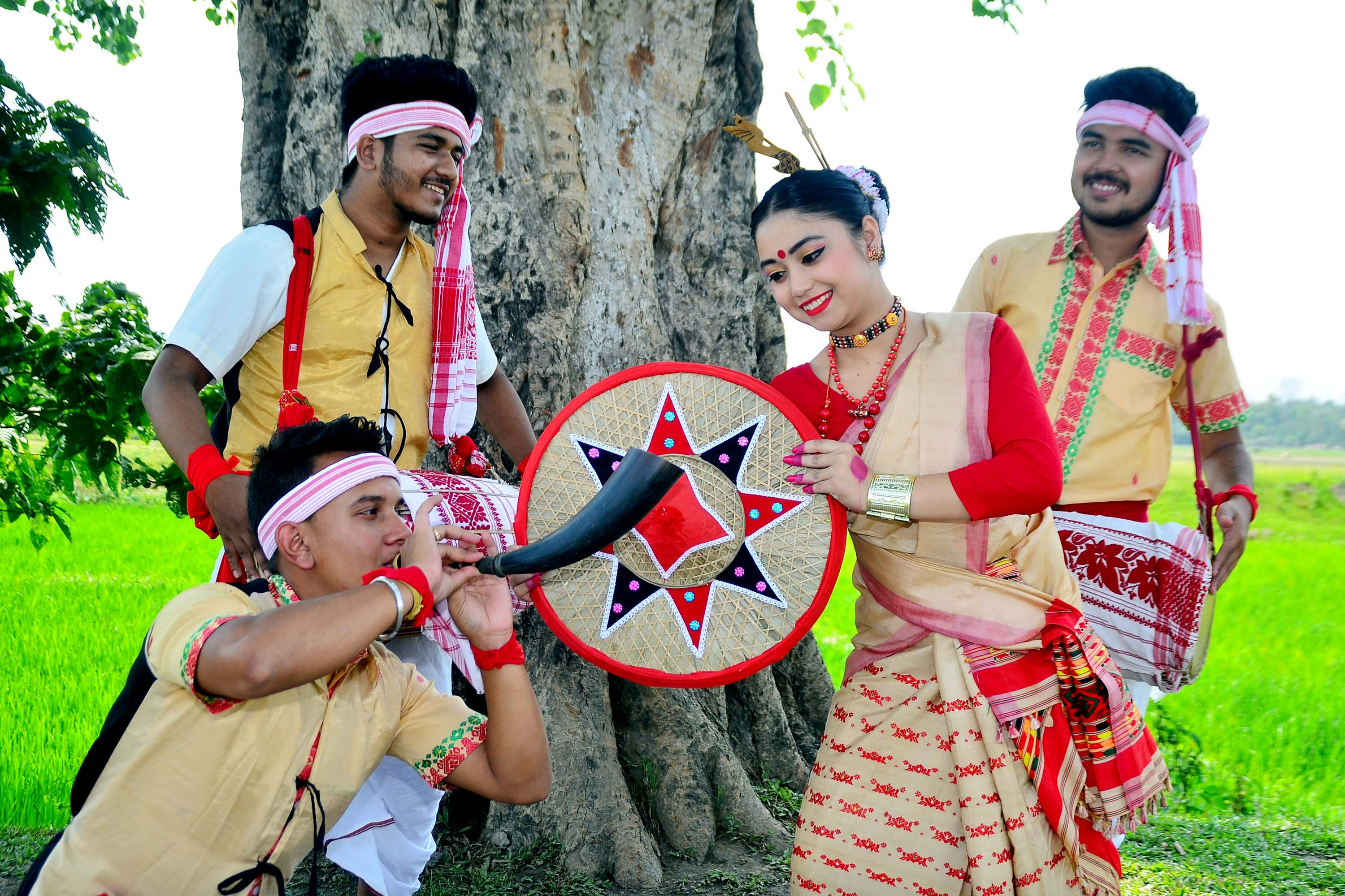 Youths perform the Bihu dance on the occasion of Rongali Bihu festival